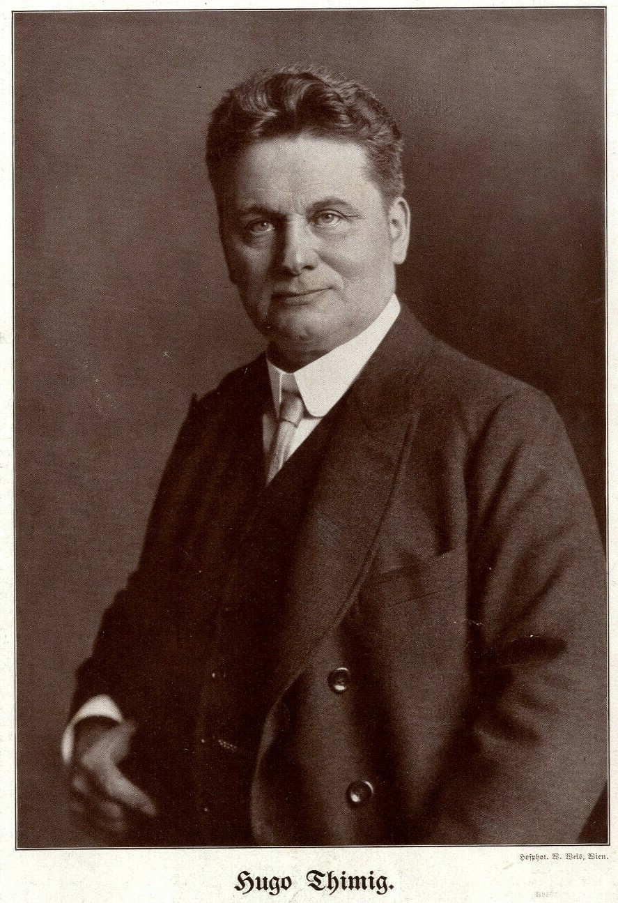 Hugo Thimig by Wenzl Weis, 1912